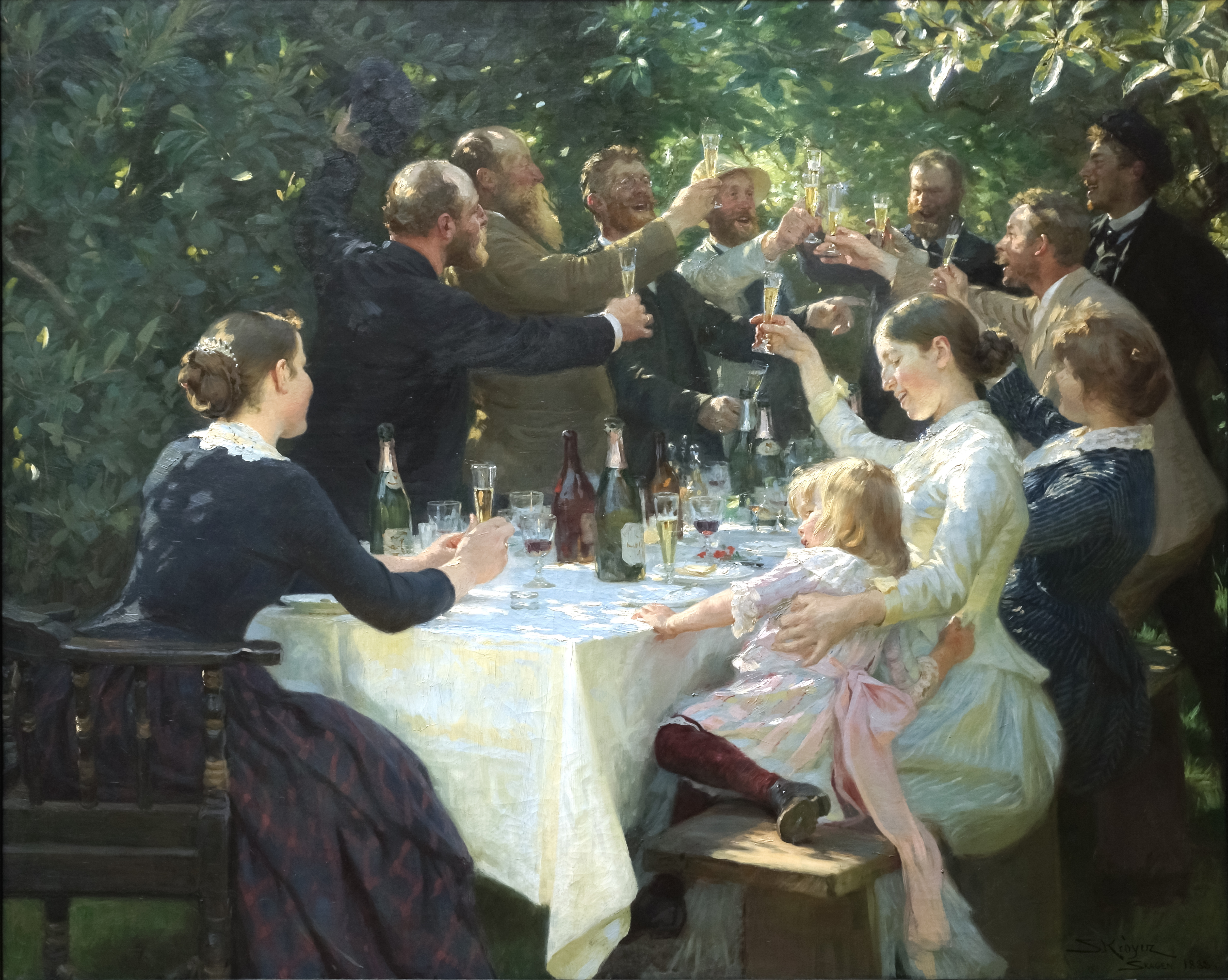 This is a photo of an artwork at the Gothenburg Museum of Art in Sweden with the identifier: F 62